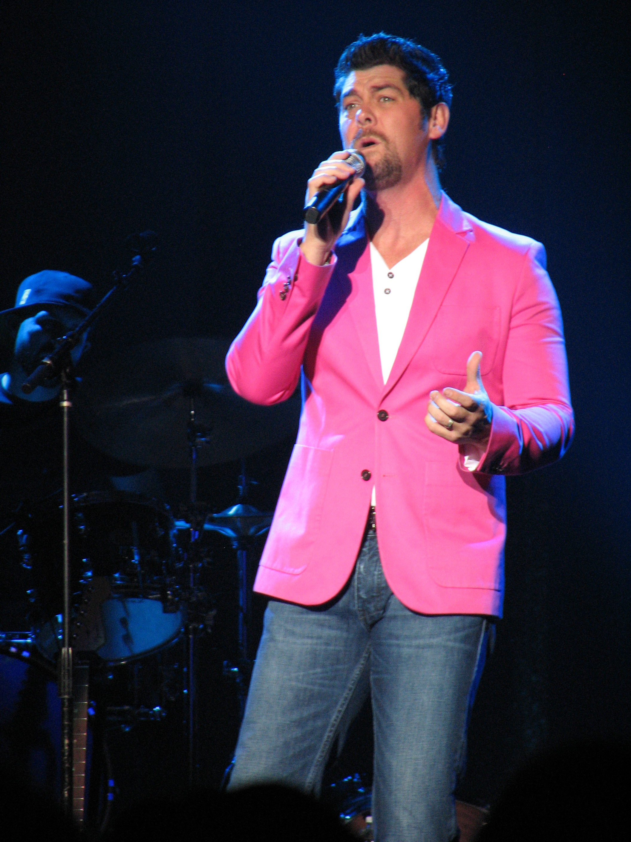 Musician Jason Crabb performing on October 11, 2013